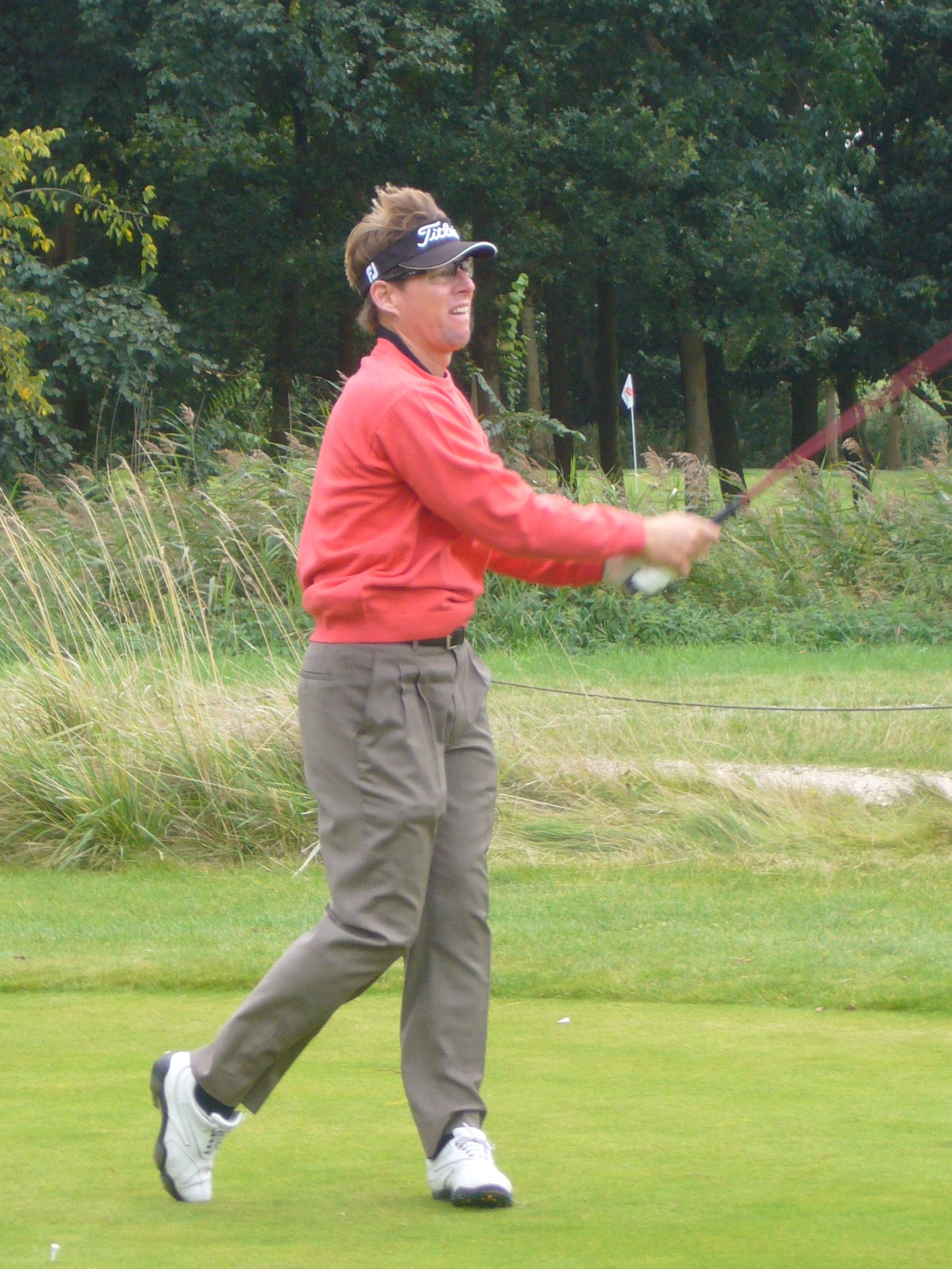 Carl Sunesson, Spanish golfer